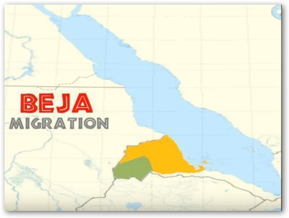 Beja migration to the highlands of Eritrea.